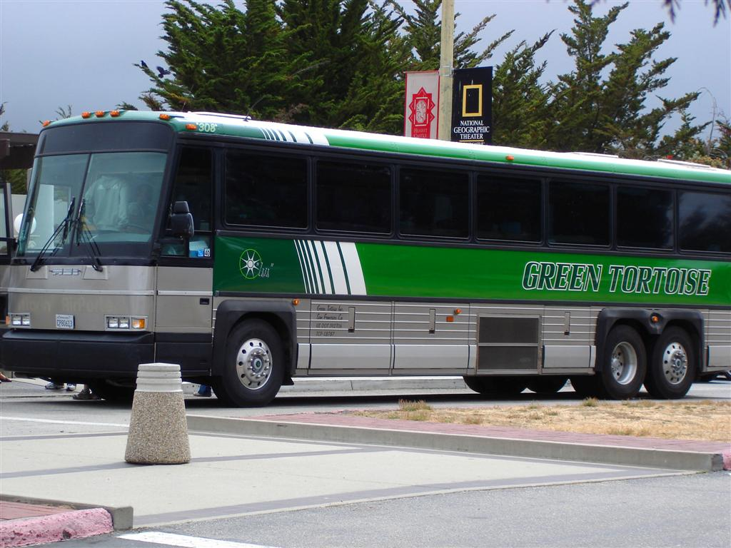 Green Tortoise bus No. 308, built by Motor Coach Industries (MCI).